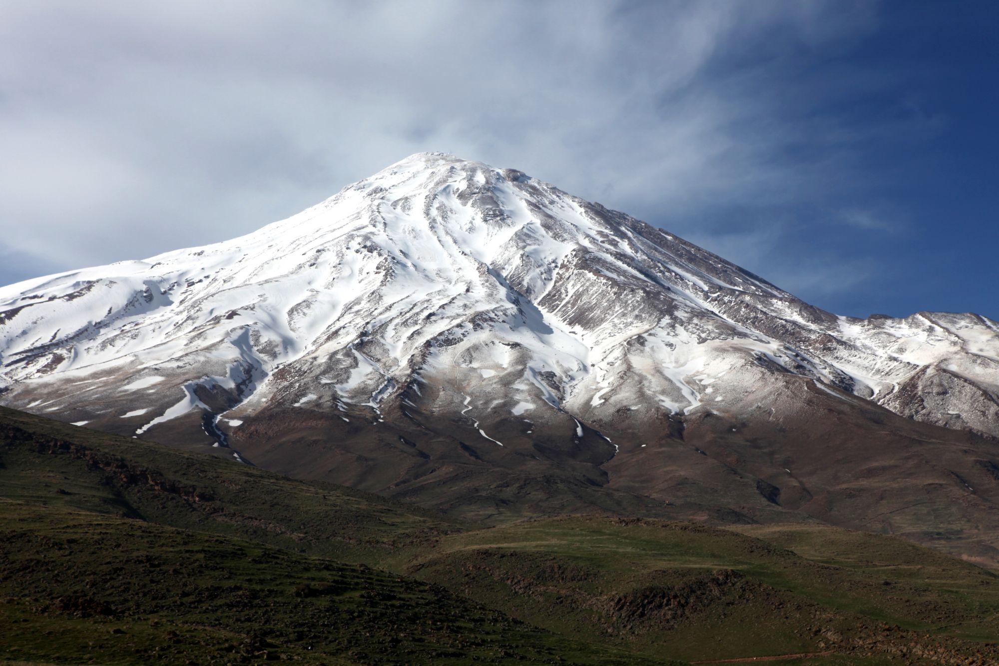 Damavand mountain from Polur